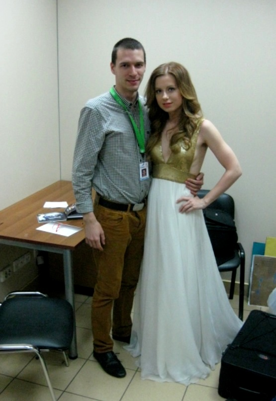 Oleg Pankin with Yulia Savicheva in the dress by PANKIN couture